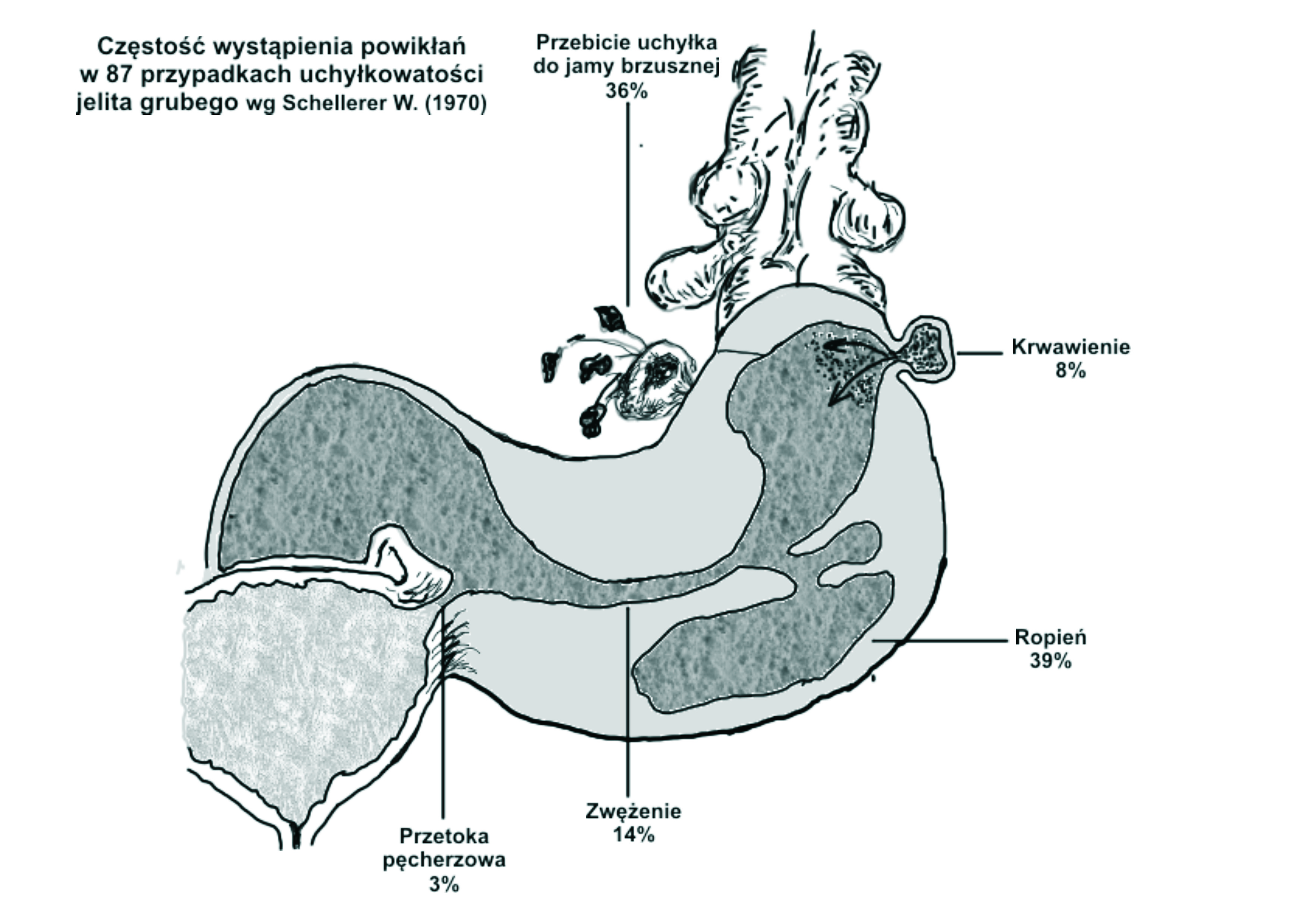 Complications of the sigmadiverticulitis (diagram)